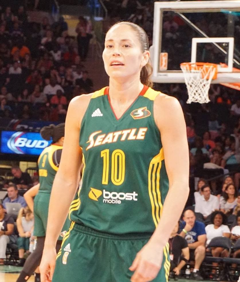 Sue Bird at 2 August 2015 game